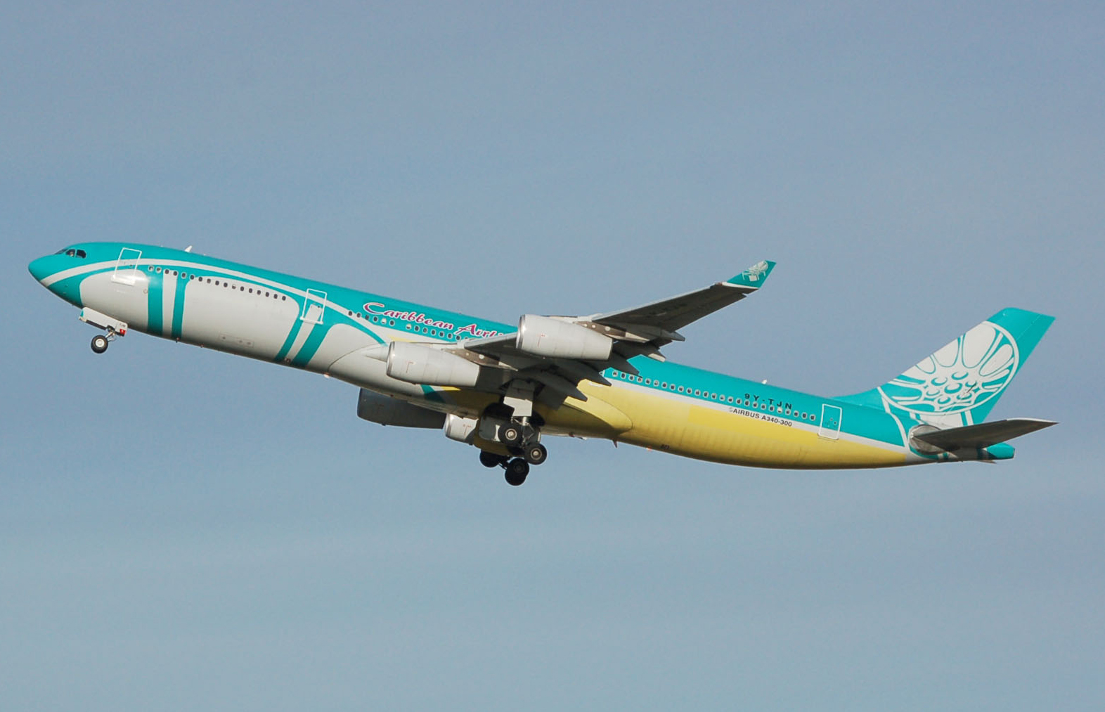 Caribbean Airlines Airbus A340-300 (9Y-TJN) takes off from London Heathrow Airport, England. Photographed by Adrian Pingstone in January 2007 and released to the public domain.